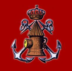 California Brotherhood